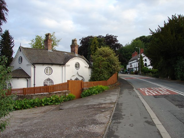 Windows of time, near to Burton, Wrexham/Wrecsam, Great Britain. Marford has many cottages and interesting buildings featuring round and arched windows, starting with the toll house at the foot of the hill. Here is a typical example on the left, with the Trevor Arms on the corner further up the hill.